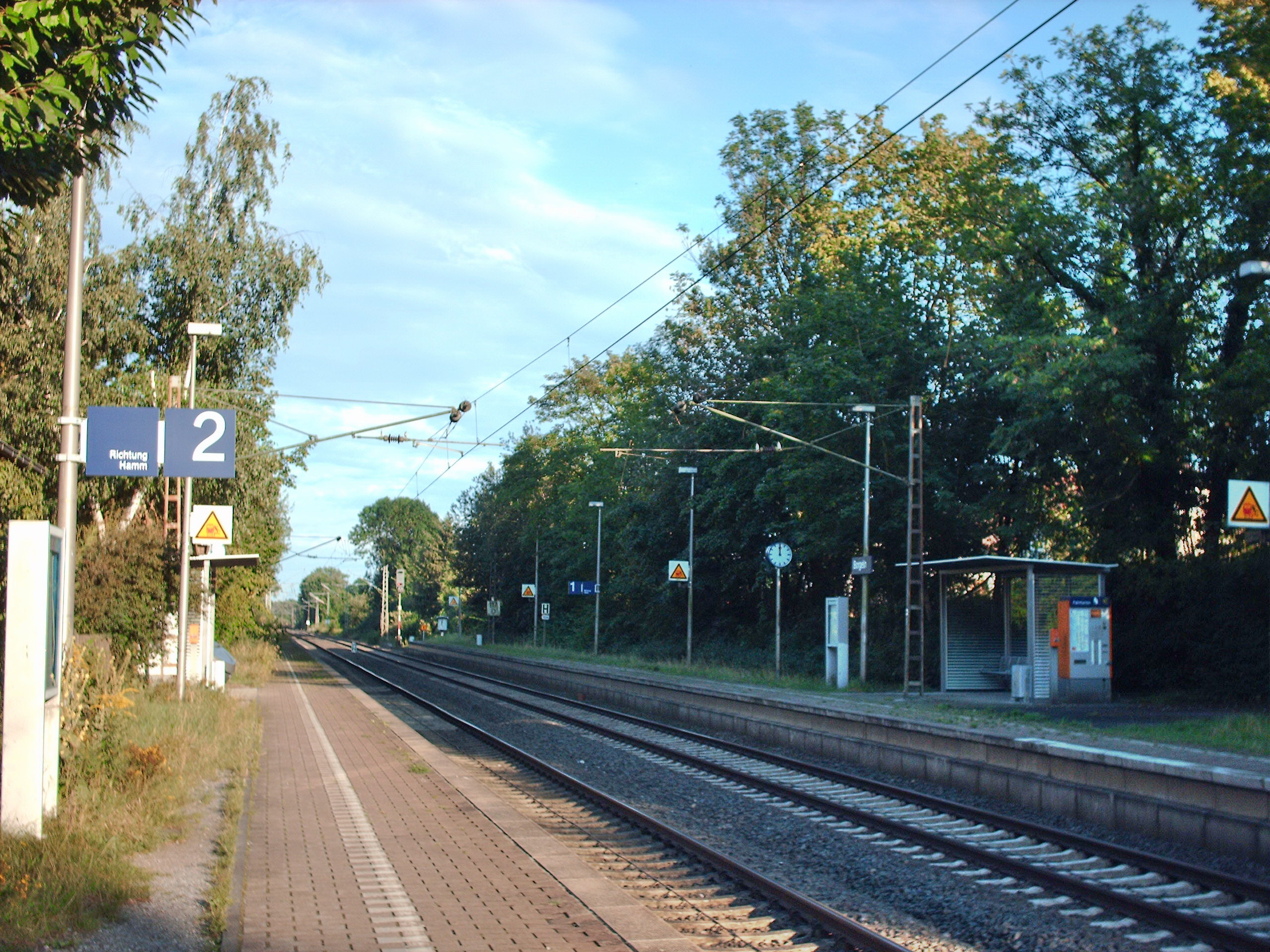 Borgeln station, Welver, Germany check usage